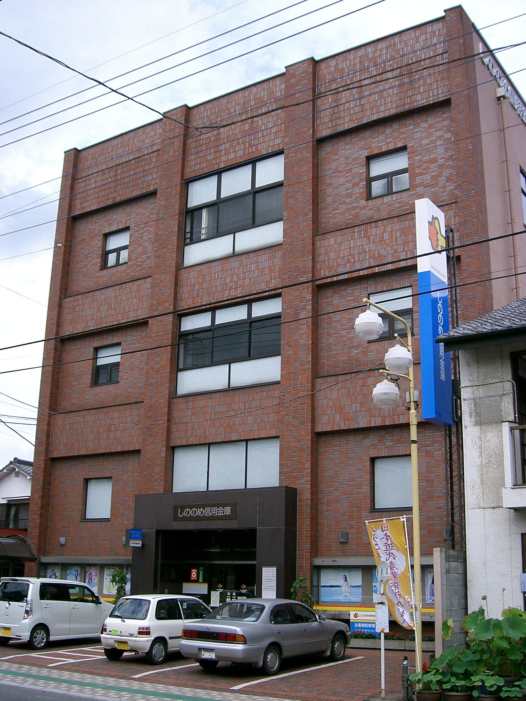 Head office of Shinonome Shinkin Bank